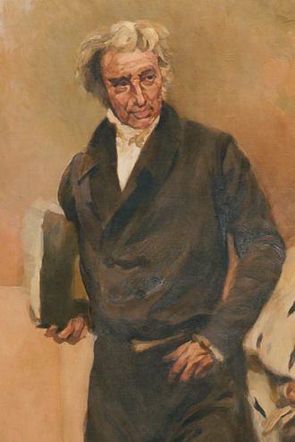 Mouzinho da Silveira, D. Pedro de Sousa Holstein (1st Duke of Palmela), D. João Carlos de Saldanha Oliveira e Daun (1st Duke of Saldanha), and José da Silva Carvalho, in a 1926 painting by Columbano Bordalo Pinheiro for the Palace of Saint Benedict (Portuguese Parliament), Lisbon, Portugal.